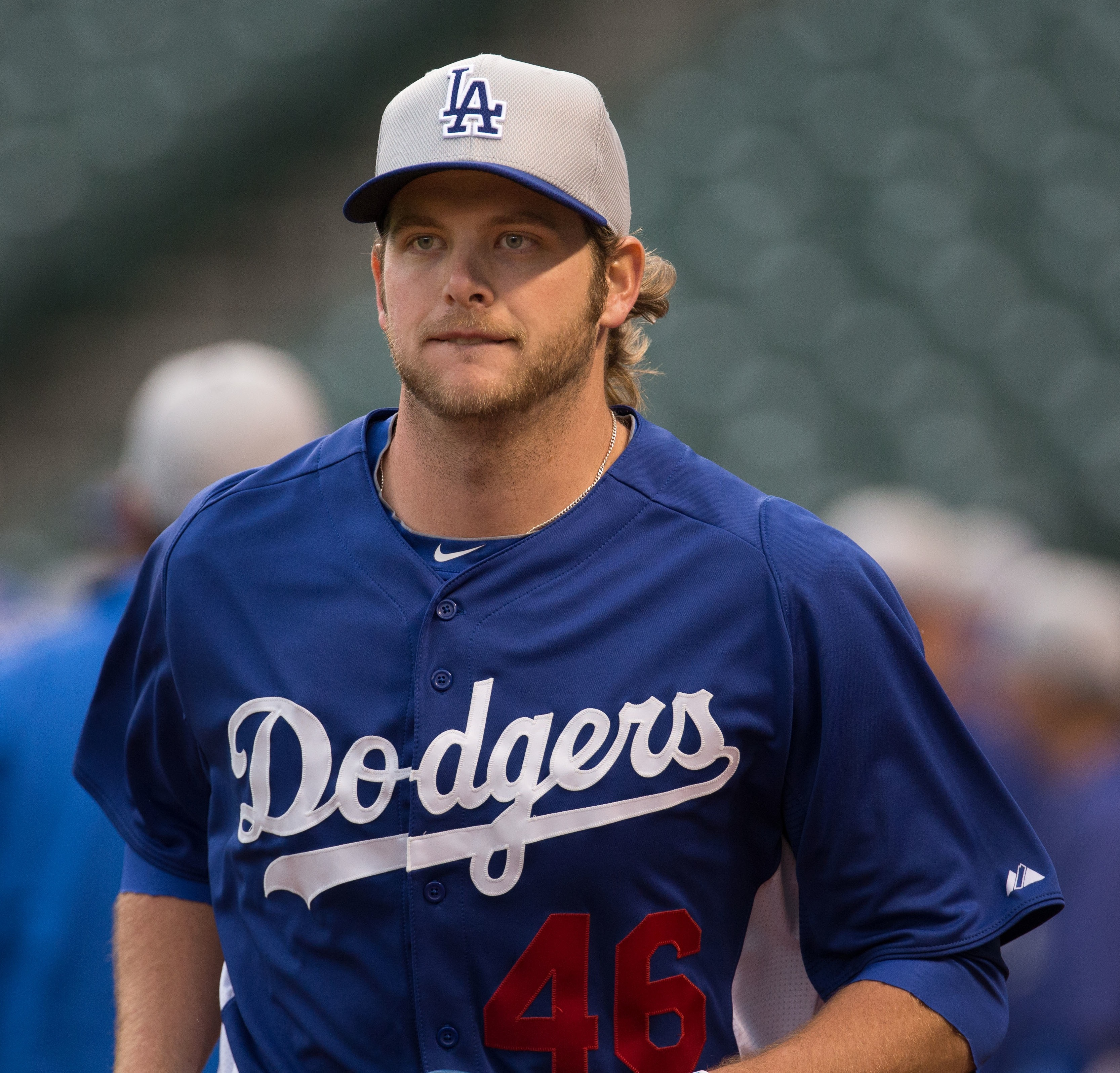 Los Angeles Dodgers pitcher Josh Wall – Los Angeles Dodgers at Baltimore Orioles April 19, 2013